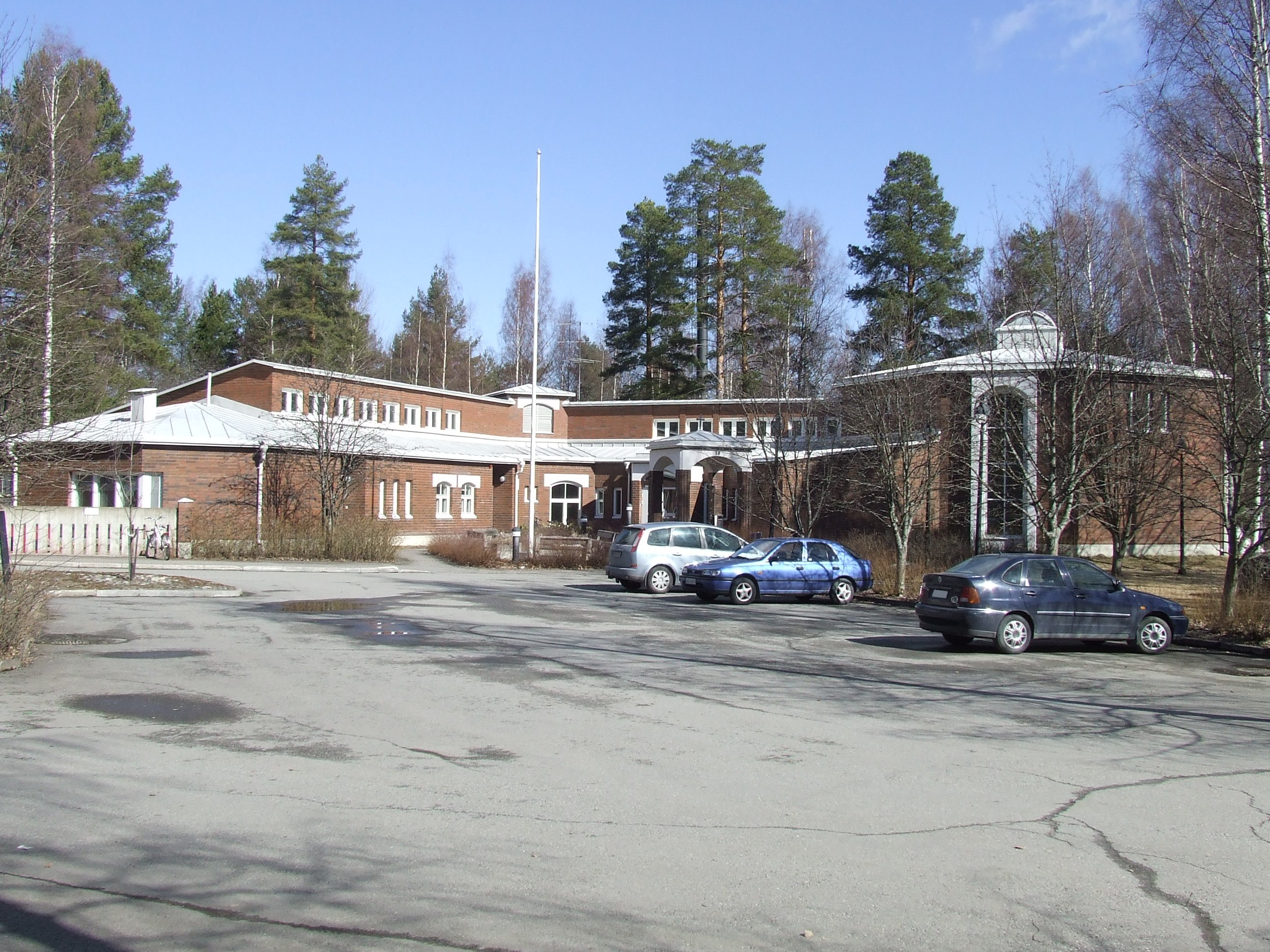 Hukanhauta church hall in Joensuu, Finland.